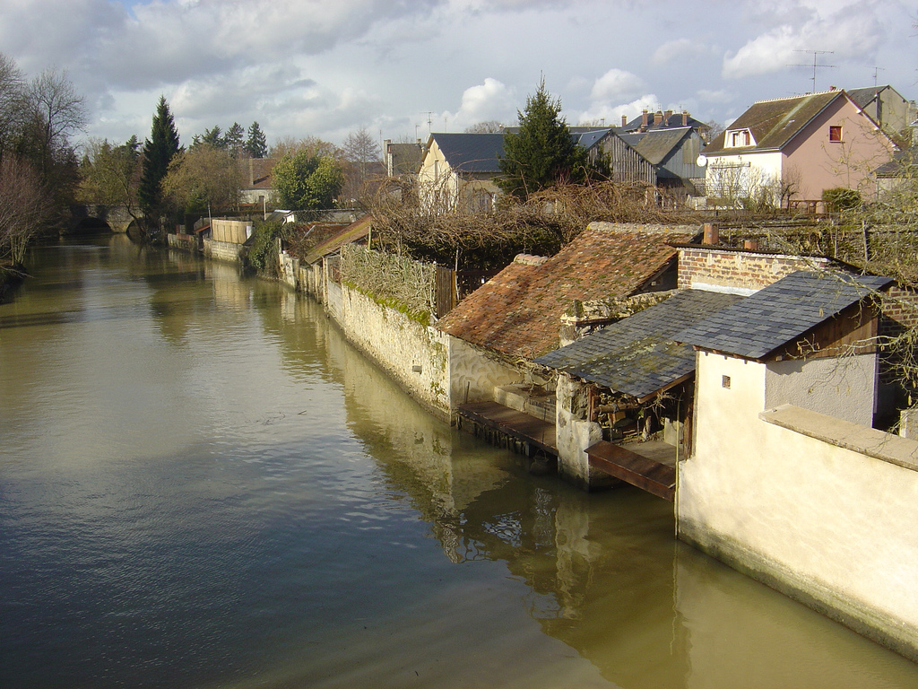 The washings of Brou.